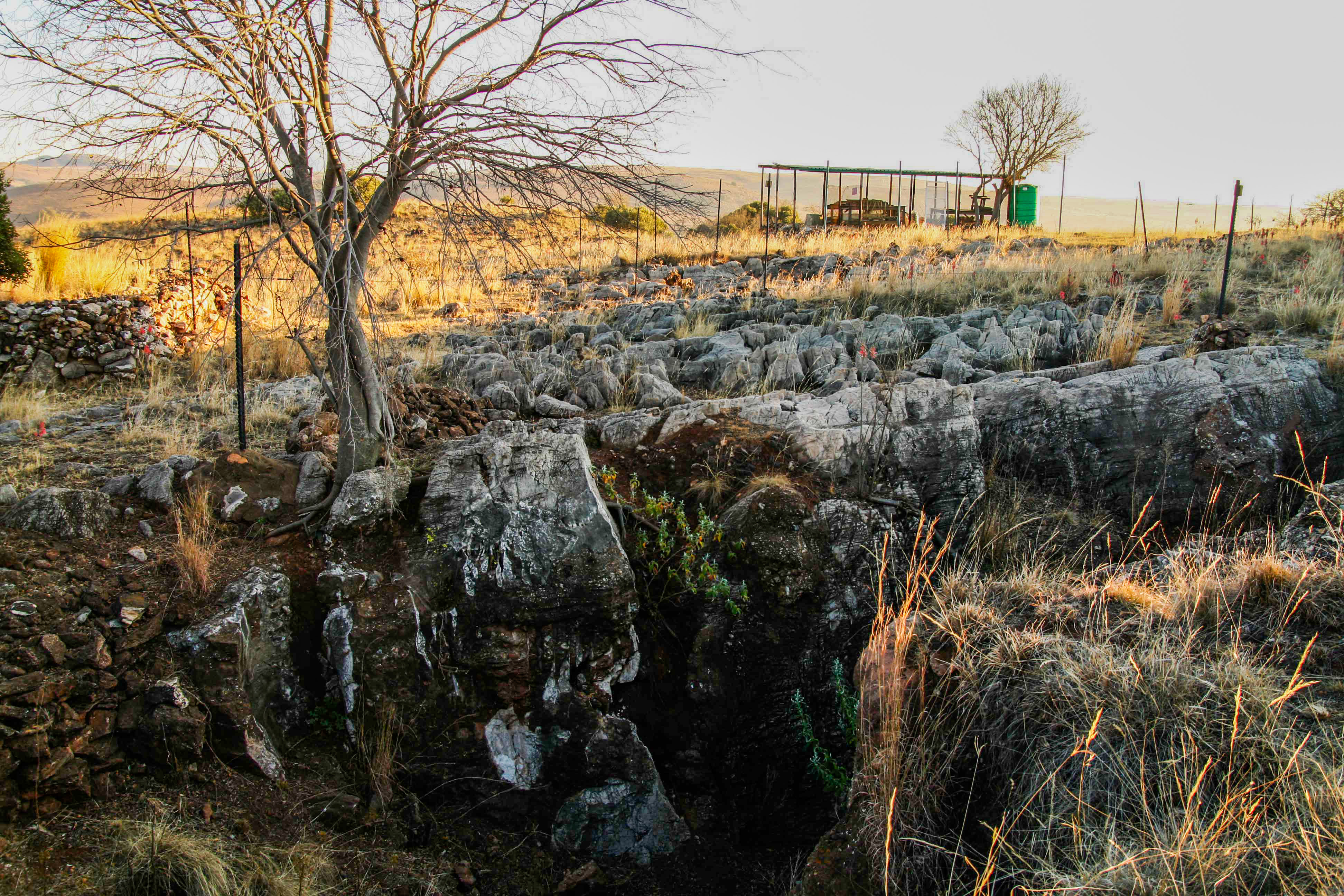 View of Kromdraai A, South Africa. Photo by Lee R. Berger